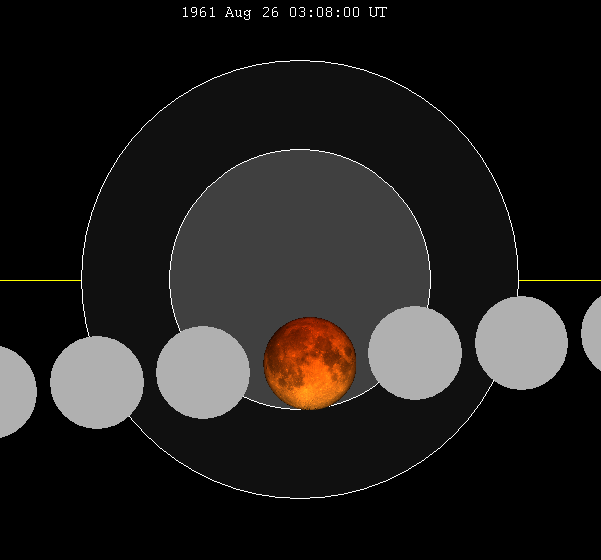 August 1961 lunar eclipse chart of moon's path through the earth's shadow. thumb